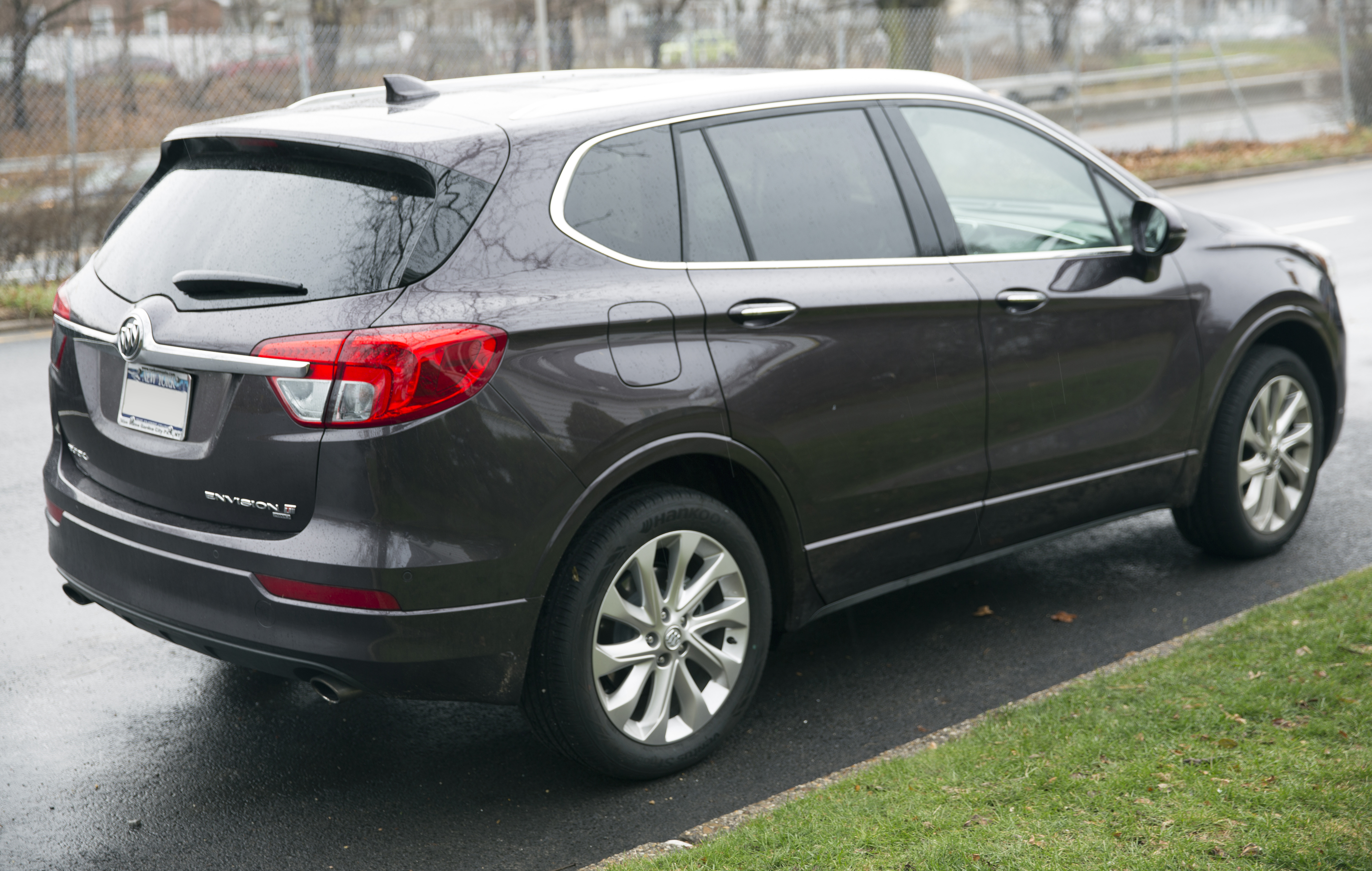 A 2016 Buick Envision. Built in China, turbocharged 2.0-liter inline-four with 252hp.